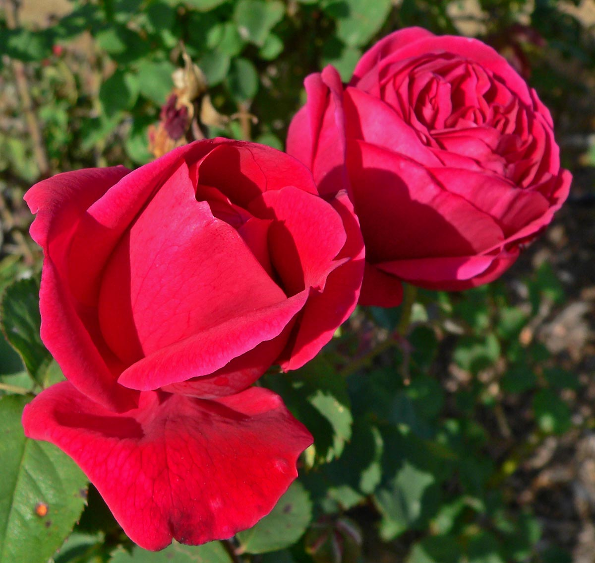 Photo of Rosa 'Kitchener of Khartoum' at the San Jose Heritage Rose Garden